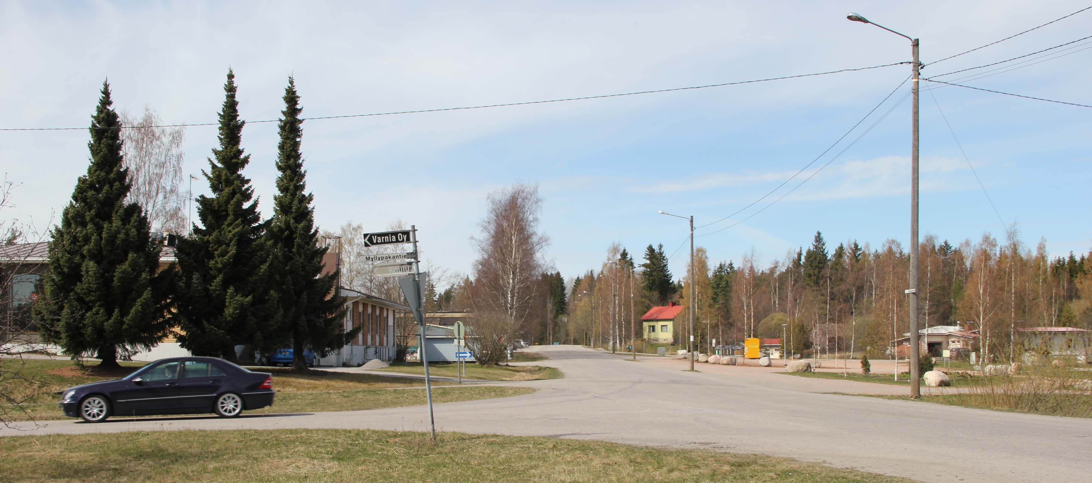 Kitula village, Suomusjärvi, Salo. Street Urheilutie